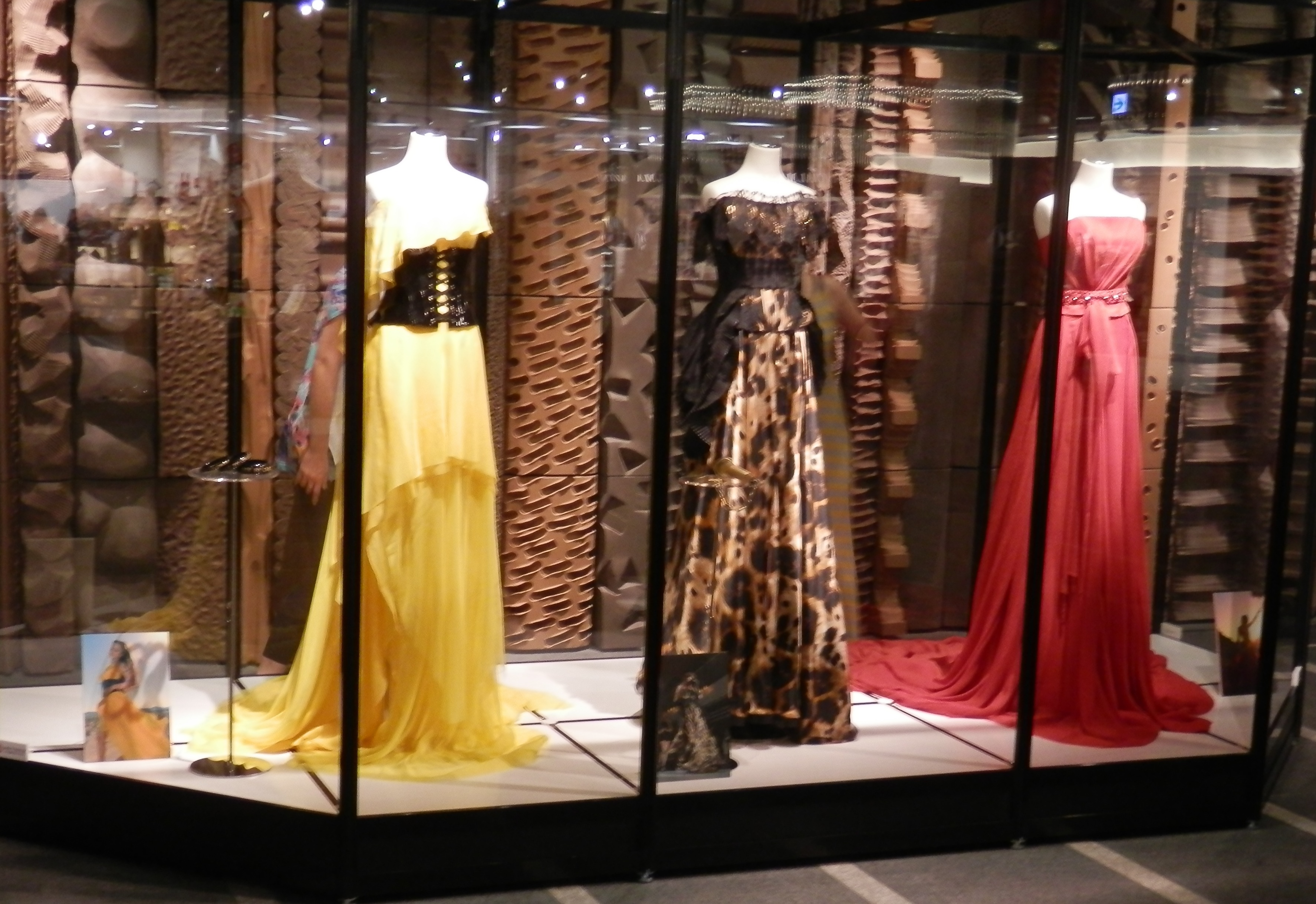 Three dresses worn by Japanese pop singer Namie Amuro, as displayed at the department store Paseo in Sapporo, Japan. The exhibit was a temporary display, held from June 22, 2012, until July 16, 2012. The central dress is from the music video for "Hot Girls," while the two others are from "Only You." Both songs are released from Amuro's 2012 album, Uncontrolled.